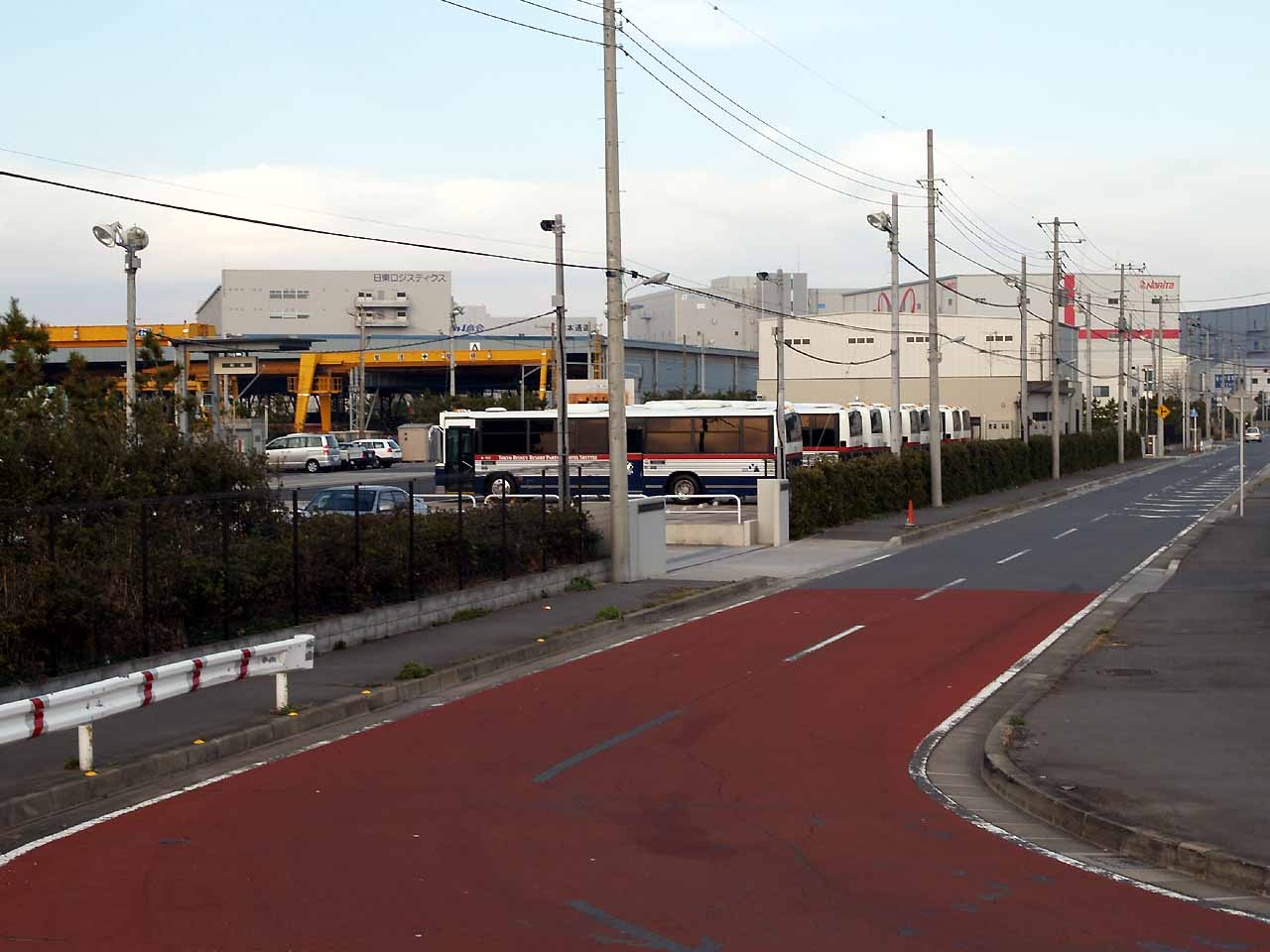 Keisei Transit Bus Chidori Dept, for Tokyo Disney Resort Partner Hotel Shuttle bus operation. Base of Tokyo Bay City Kotsu is neighbour. （京成トランジットバス千鳥営業所）